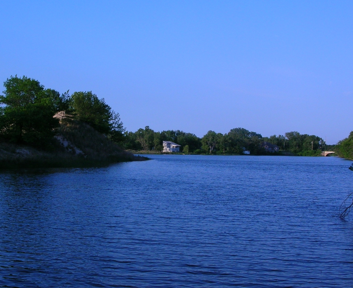 View east toward Lake Street from the Miller Woods area of the Indiana Dunes National Lakeshore, looking across the Miller Lagoon in Miller Beach, a neighborhood of Gary, Indiana.